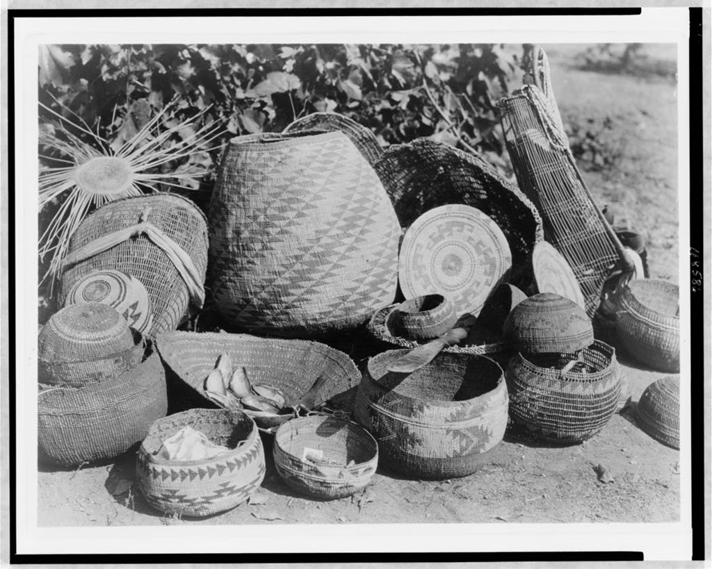 Karok baskets